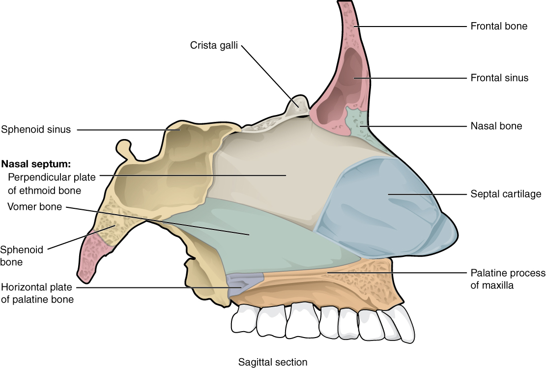 Illustration from Anatomy & Physiology, Connexions Web site. Jun 19, 2013.